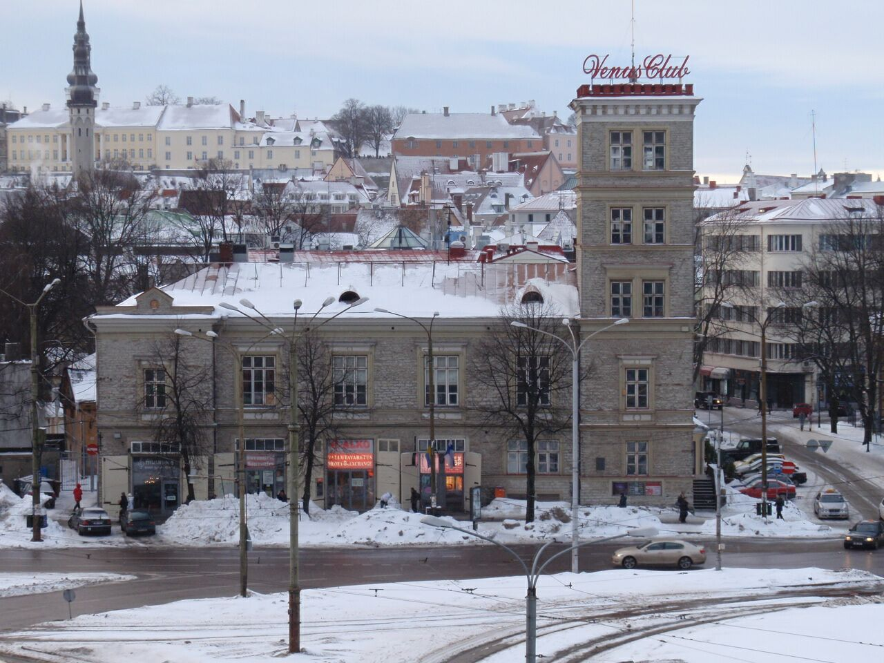 Former fire department, now Venus Club. Built 1872-1873, architect Ferdinand Kordes. Picture taken from the roof of Viru Keskus.